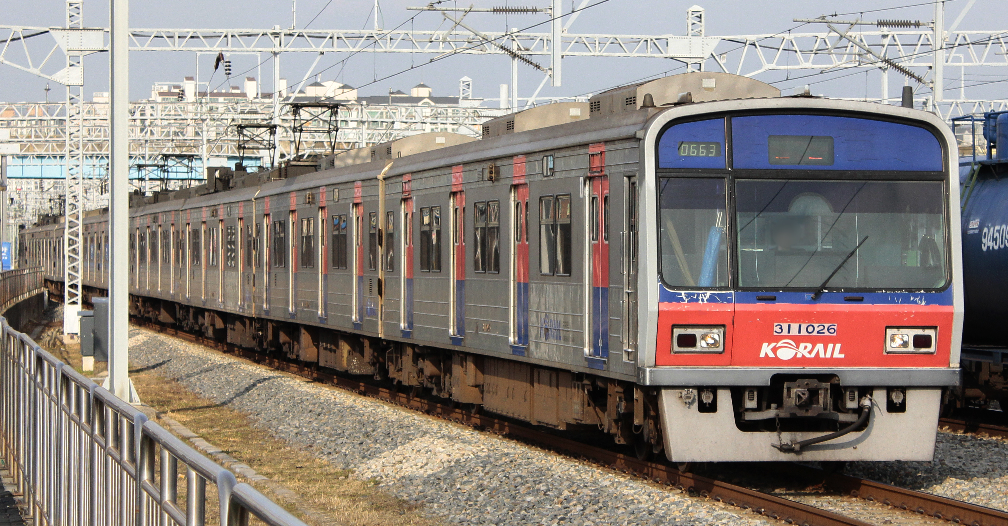 311026 Gyeongbu Line Southbound(to Cheonan) @Cheonan Station